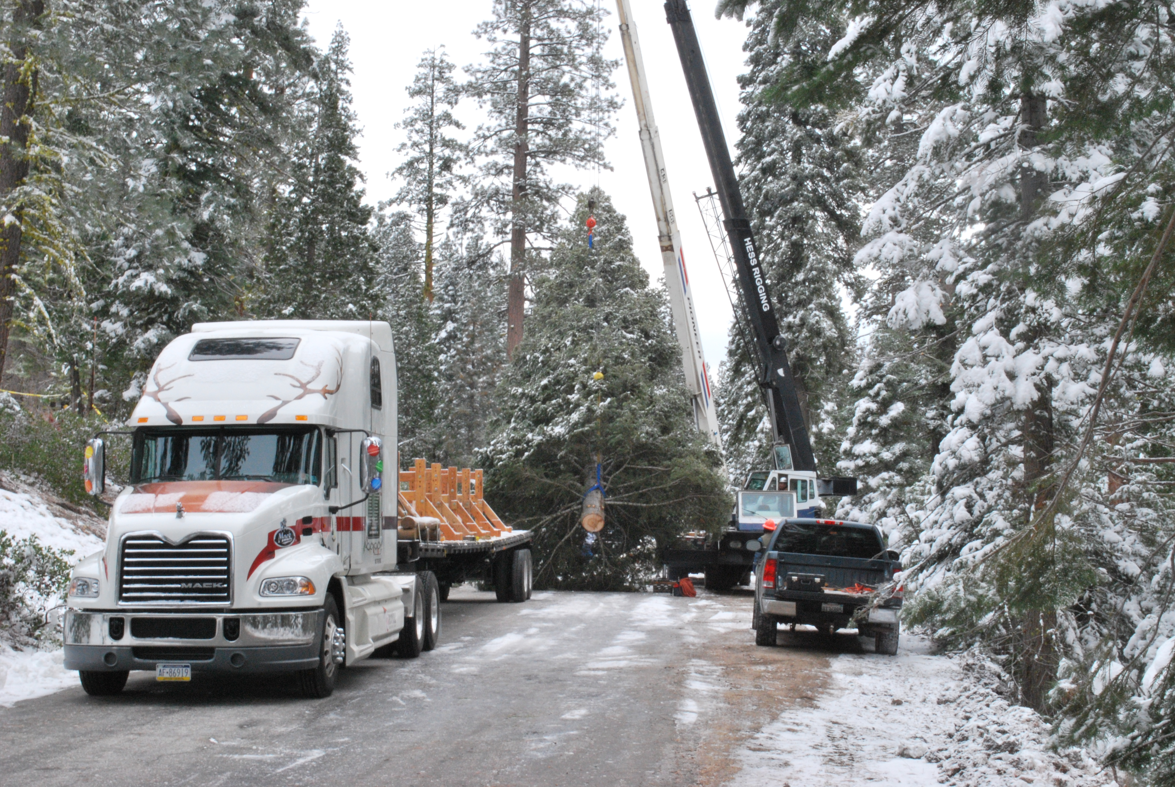 The 65-foot white fir that will be this year's Capitol Christmas Tree is loaded onto its flatbed truck by two cranes after being harvested Nov. 5. Prior to its harvesting on the Stanislaus National Forest in California, an elder from the Tuolumne Band of Me-wuk Indians blessed the majestic tree and its journey in a private ceremony. (U.S. Forest Service photo)